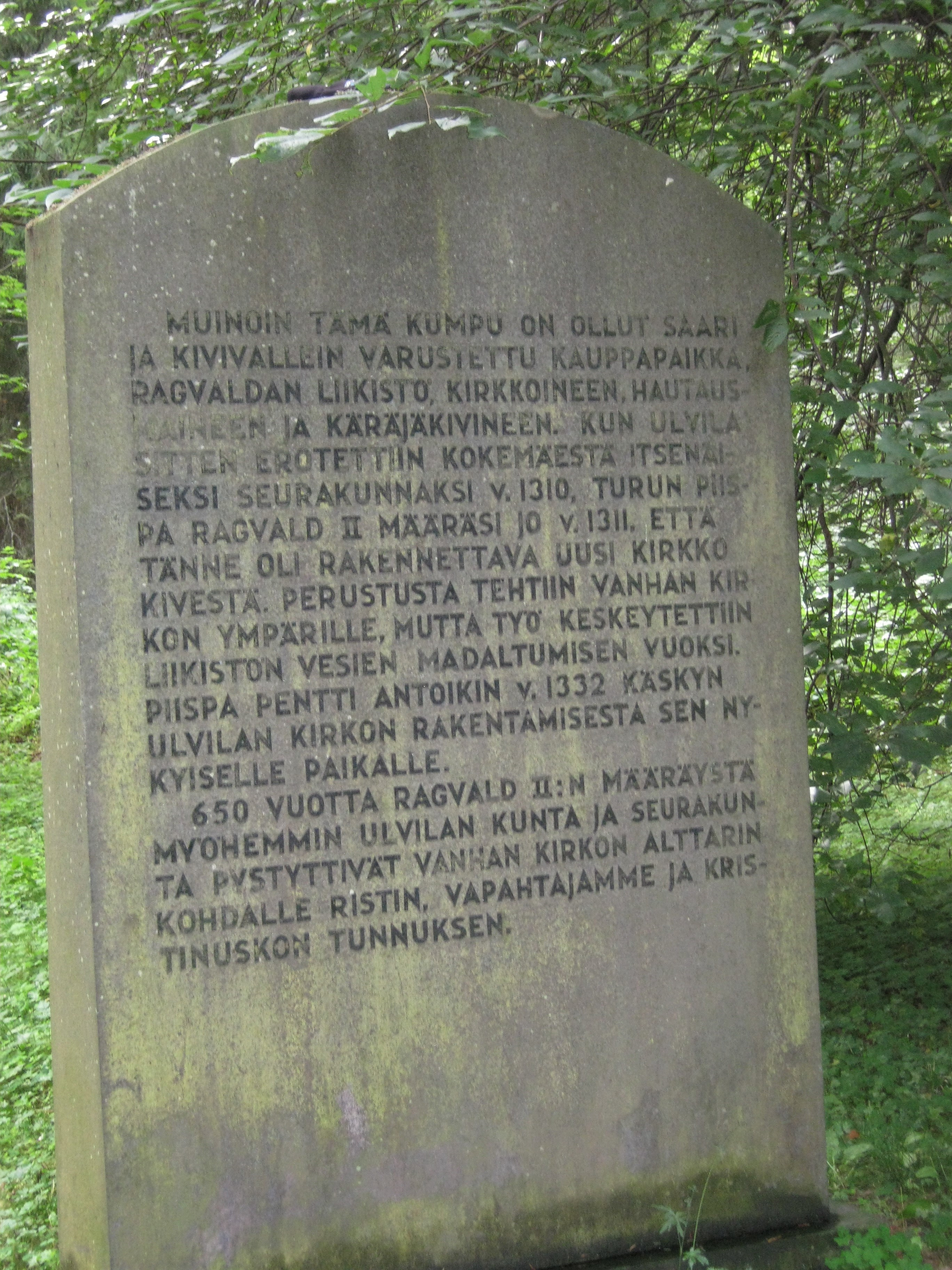 The 1961 memorial by the ruins of the 14th century Liikistö Church, Ulvila, Finland.